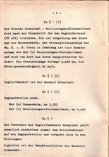 Auszug aus den Zusatzbestimmungen der Bundesbahndirektion Karlsruhe für die Strecke - Neuleiningen - Kleinkarlbach von 1972.